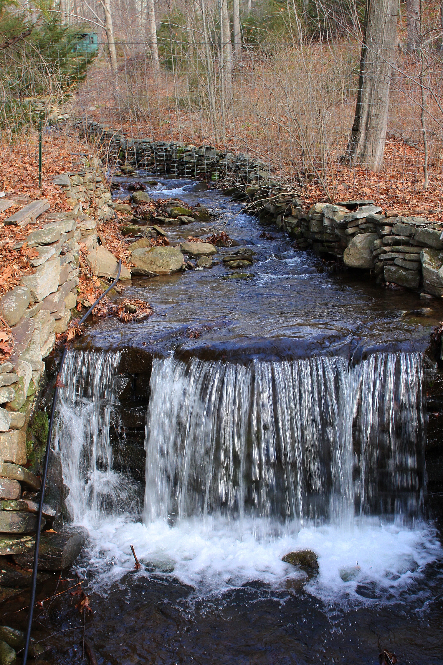 Maple Run, a tributary of Kitchen Creek, looking upstream from Hynick Road. A waterfall is also visible.